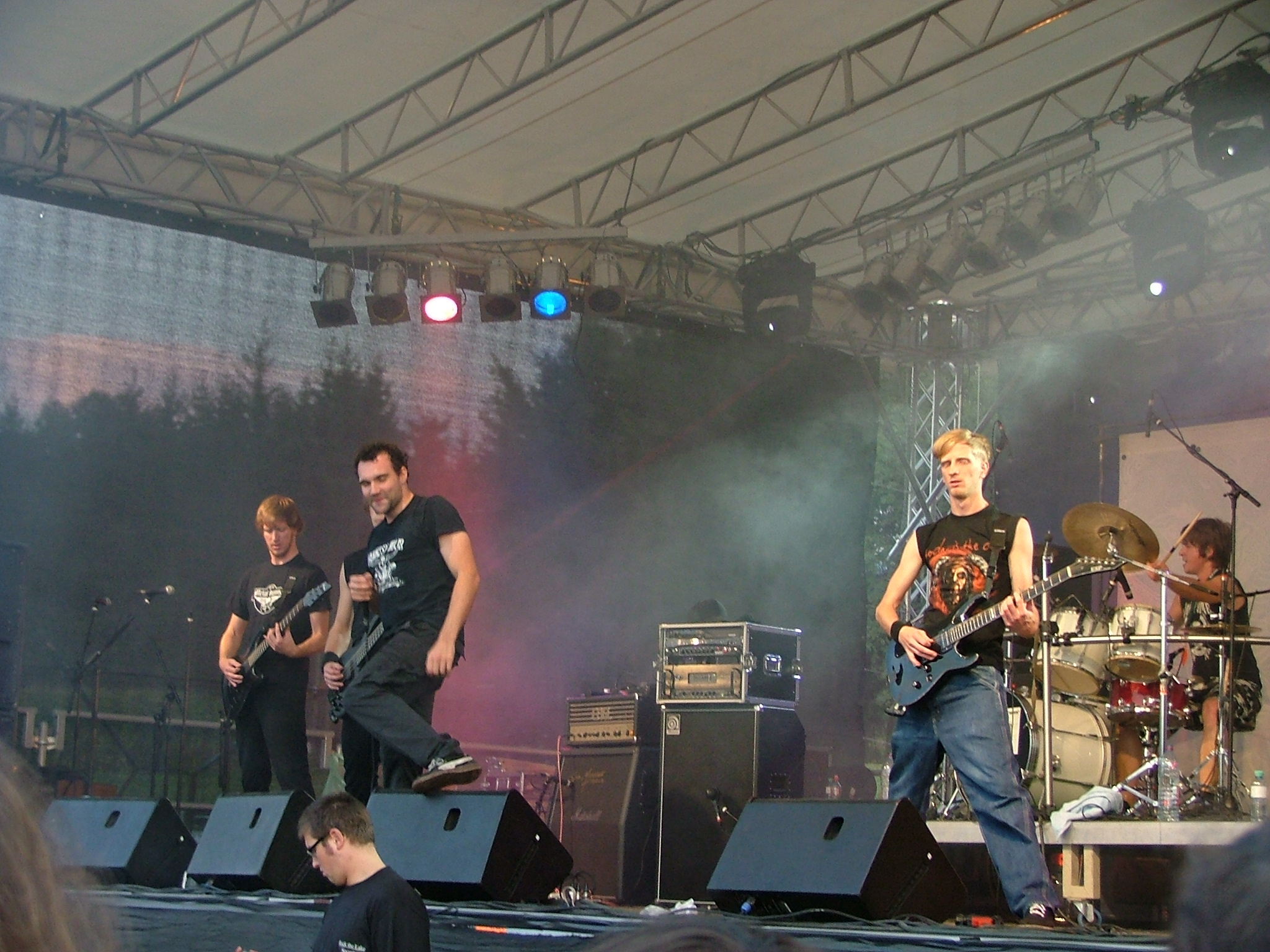 German metalcore band Neaera at 'Rock the Lake' in Finkenstein am Faaker See